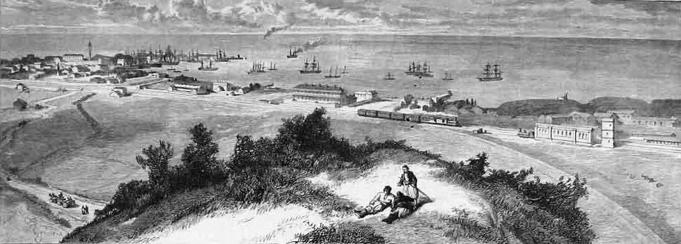 Batoum, on the Black Sea